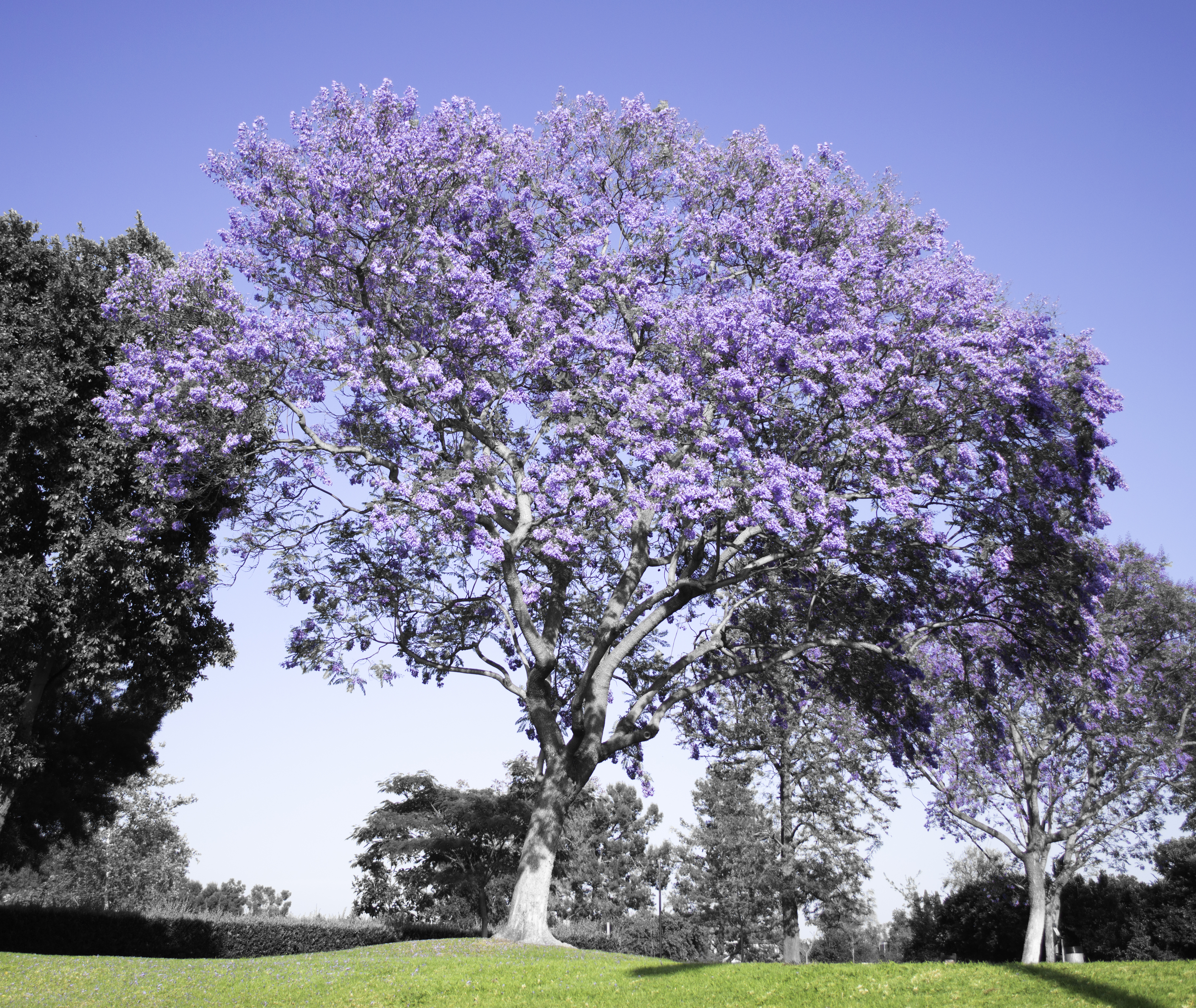 Image of a Jacaranda focused on the purple flowers, the green grass, and the blue sky.